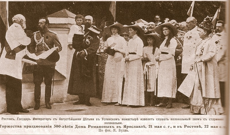 300th anniversary of the Romanov dynasty in Rostov. Nicholas II and his family hear chimes at the Assumption Convent.